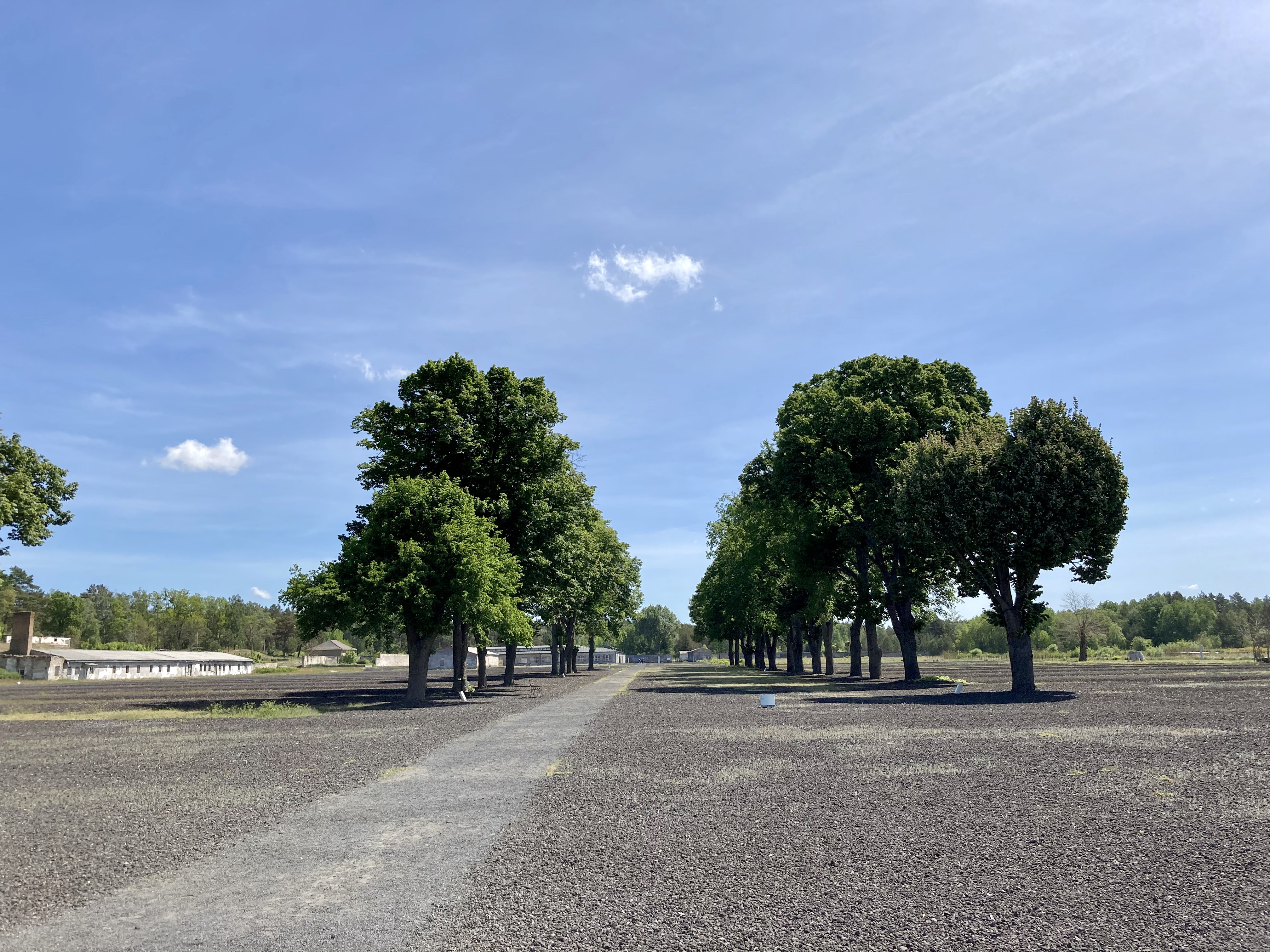 View from the roll call square down the camp street 1 of the former Ravensbrück concentration camp. The site is a memorial today.